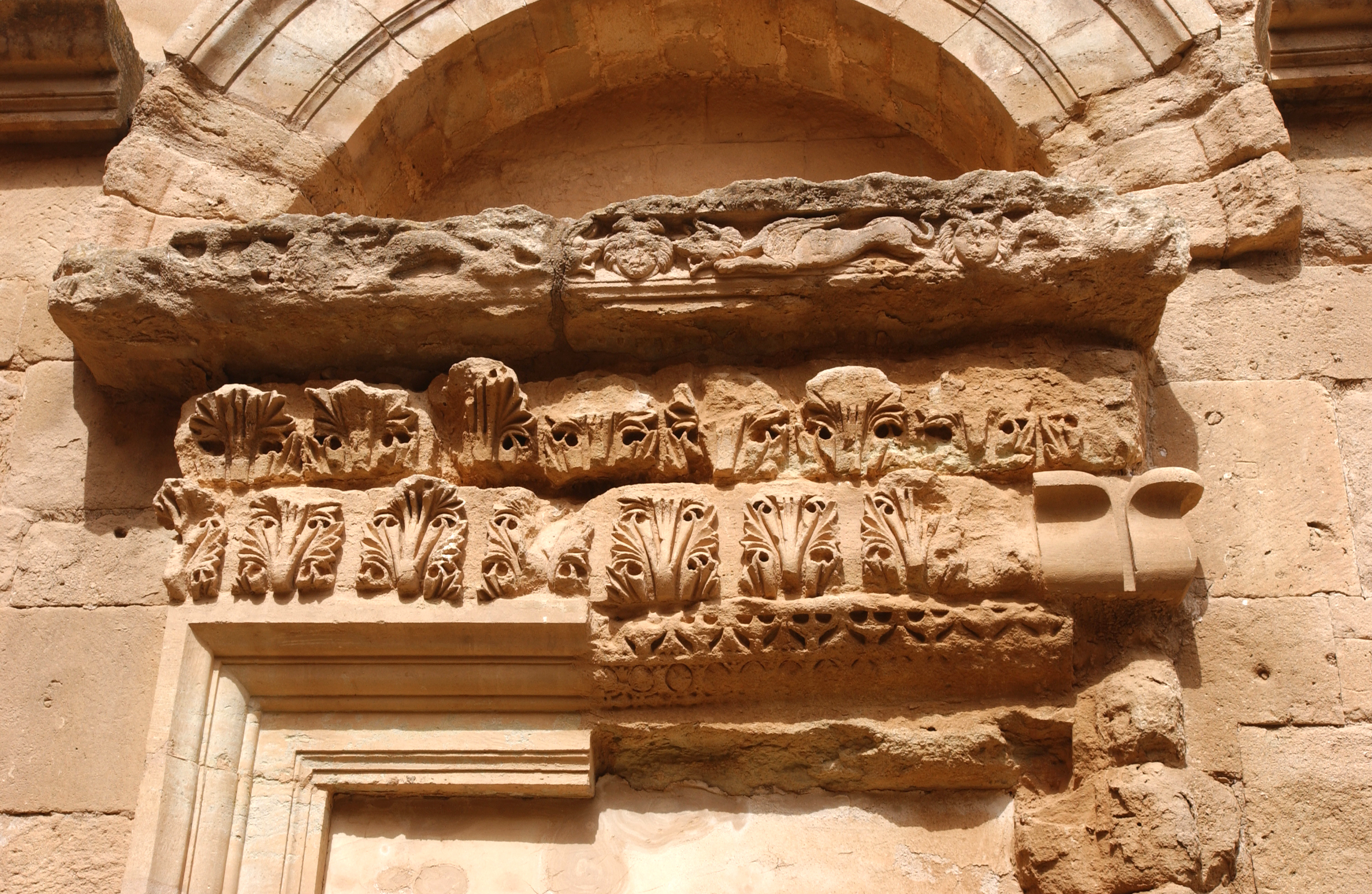 Parthian ruled and capital of the first Arab Kingdom, Hatra, also known as the City of the Sun god was built circa 150 BC. Hatra contains the temple of Shamash, spirit of the sun, and the shrine of the goddess Shahiro, the morning star.